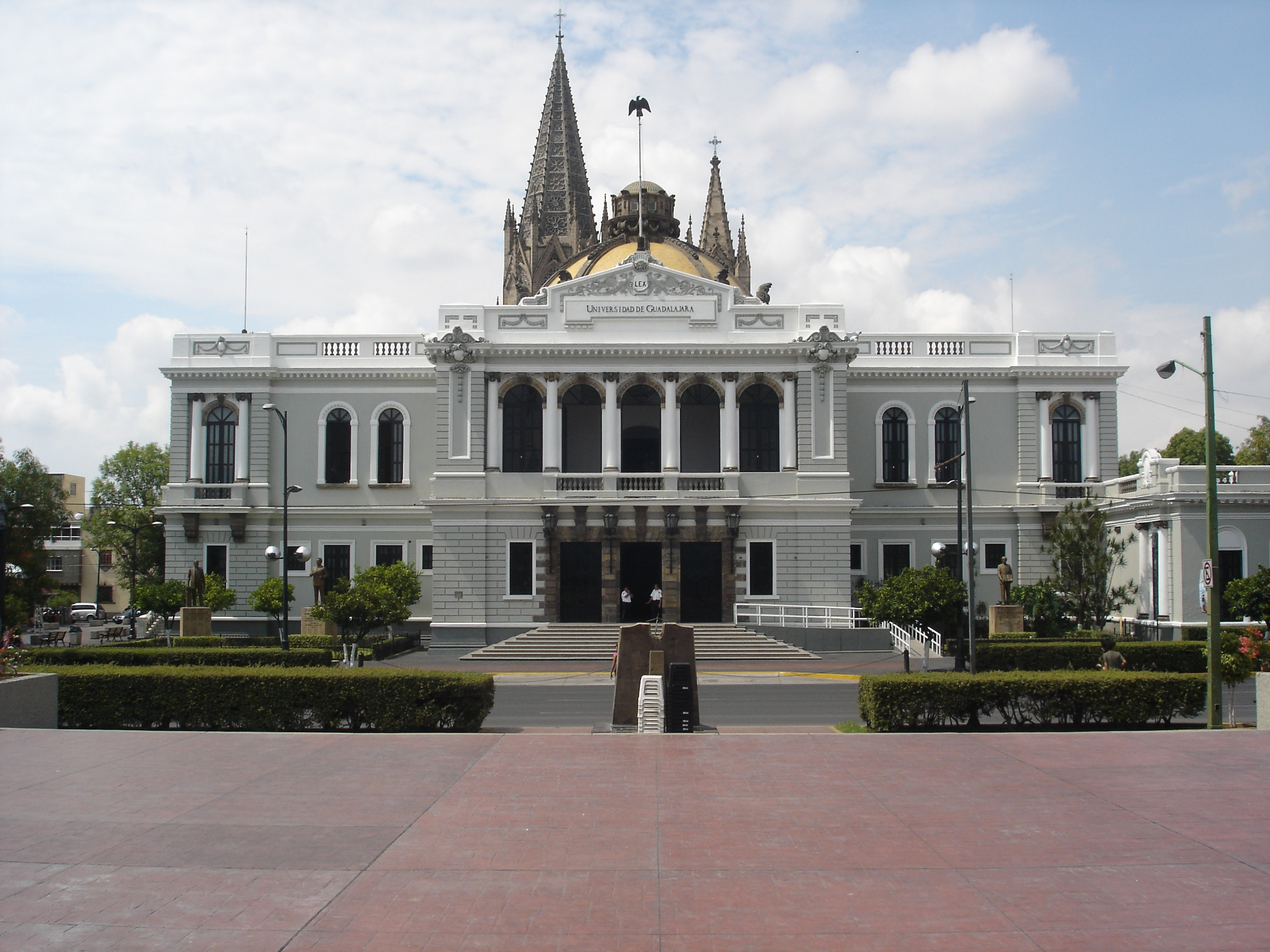 The University of Guadalajara in Guadalajara, Jalisco, Mexico.